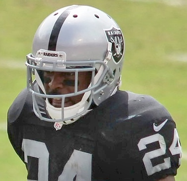 Reggie Bush #22 of the Miami Dolphins runs the ball back for a touchdown